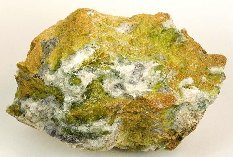 Hydrotalcite Locality: Snarum, Modum, Buskerud, Norway (Locality at ) Size: 8.4 x 5.2 x 4.1 cm. Hydrotalcite is a rare hydrated, magnesium, aluminum carbonate and this rich specimen is from the Type Locality - Snarum, Norway. Waxy, talc-like, grayish/whitish hydrotalcite is sculpturally embedded in a matrix of oxidized, yellow-green serpentine. Hydrotalcite is so named for its resemblance to talc. From an older museum collection dating to prior to WW I.